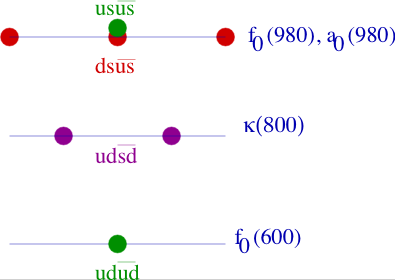 Exotic mesons. Created by: User:Bambaiah